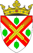 CoA of Dondușeni District.gif